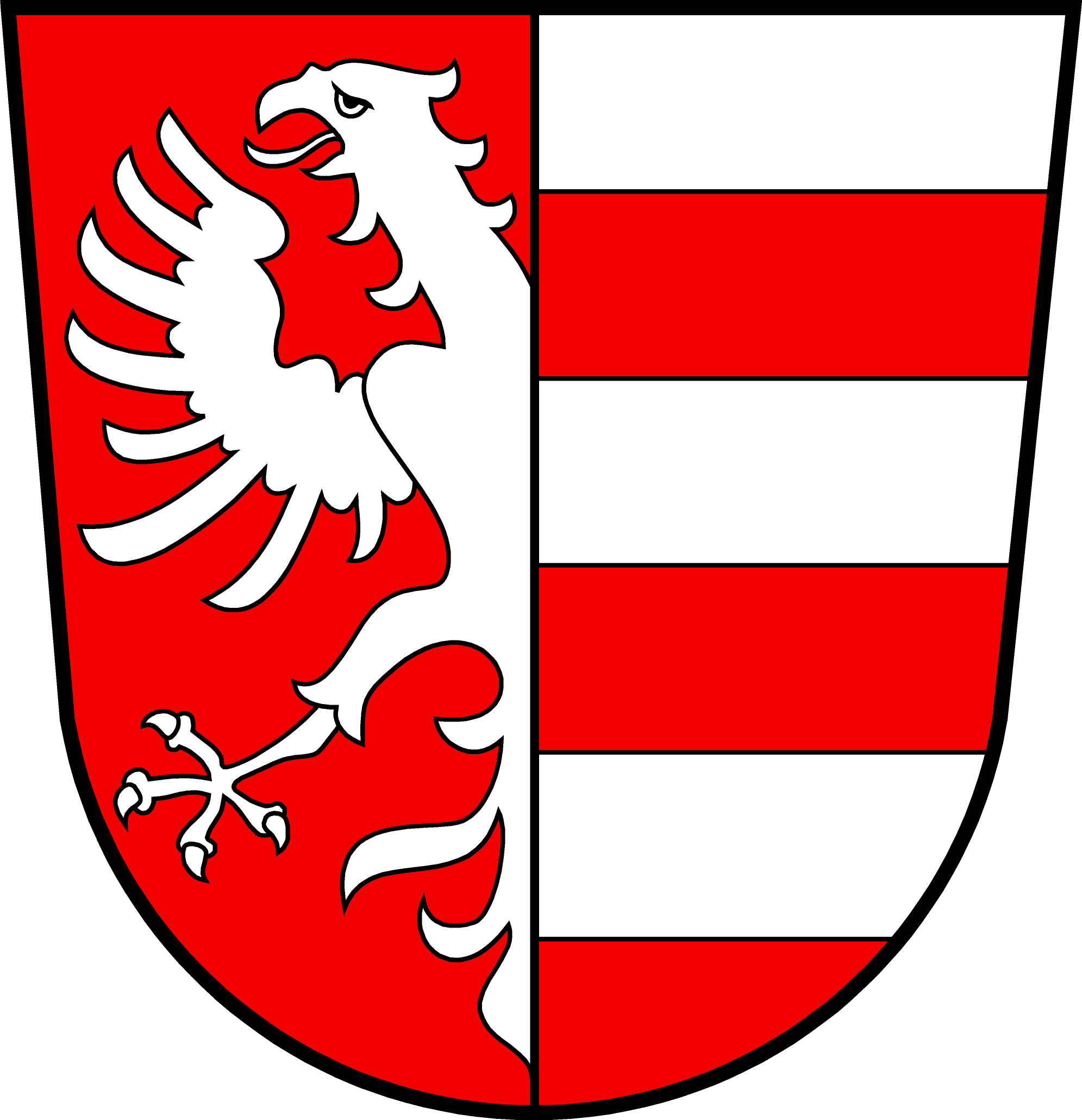 Coat of arms of the county of Schwabegg